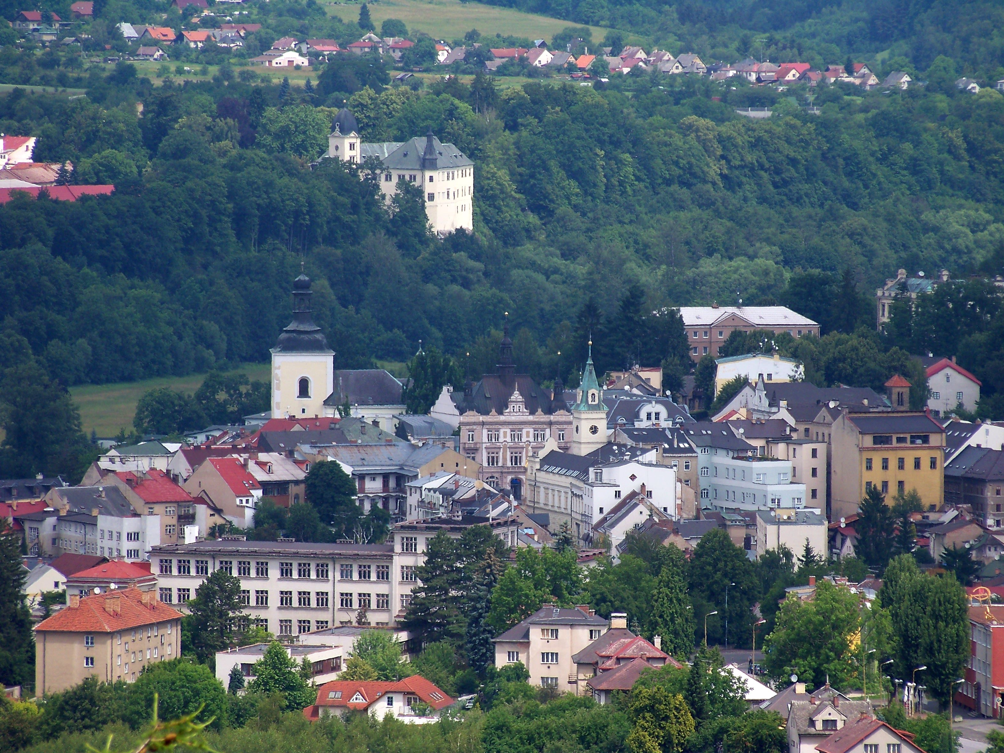 Turnov, Liberec Region, the Czech Republic. View of Turnov from Hlavatice Tower.